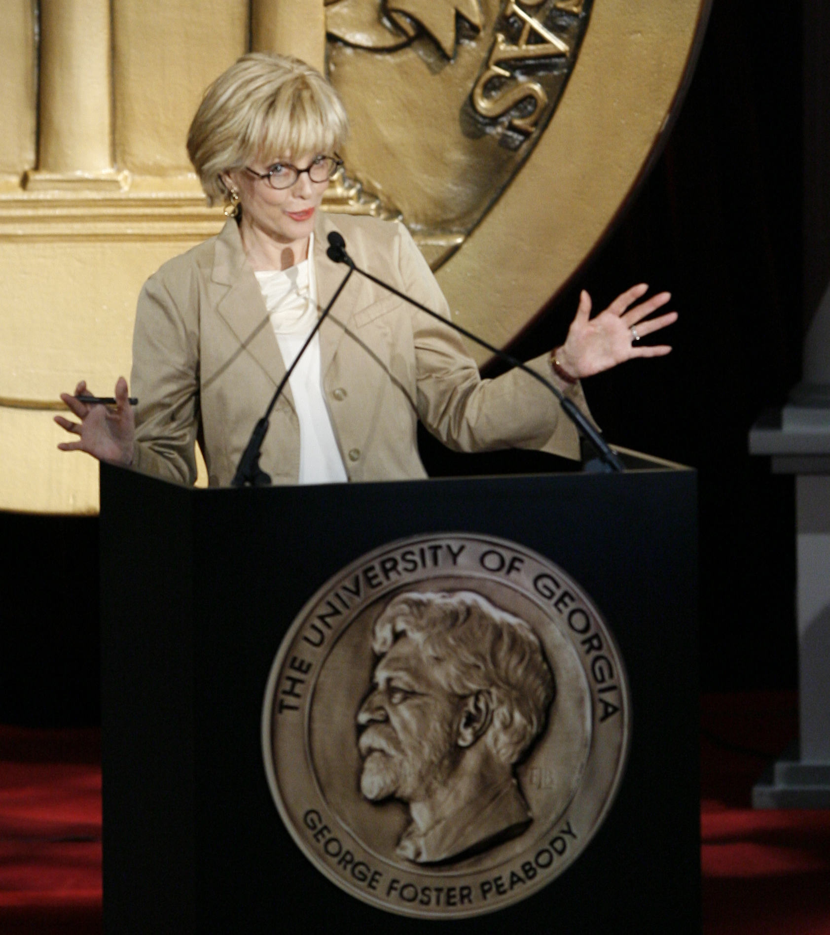 PHOTO CREDIT: ANDERS KRUSBERG / PEABODY AWARDS 67th Annual Peabody Awards Luncheon Waldorf=Astoria Hotel New York, NY USA June 16, 2008